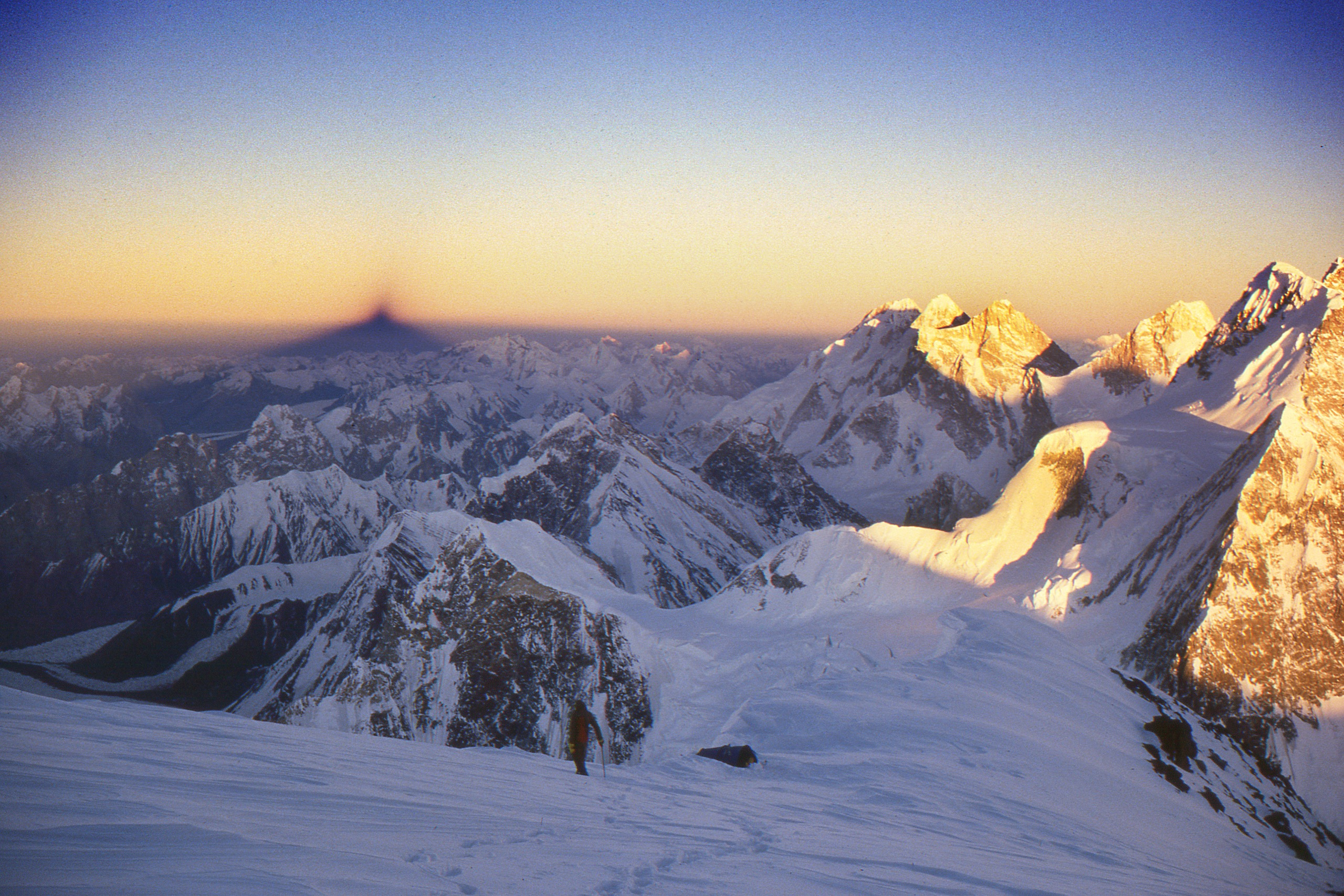 K2 - sunset on the shoulder when descending